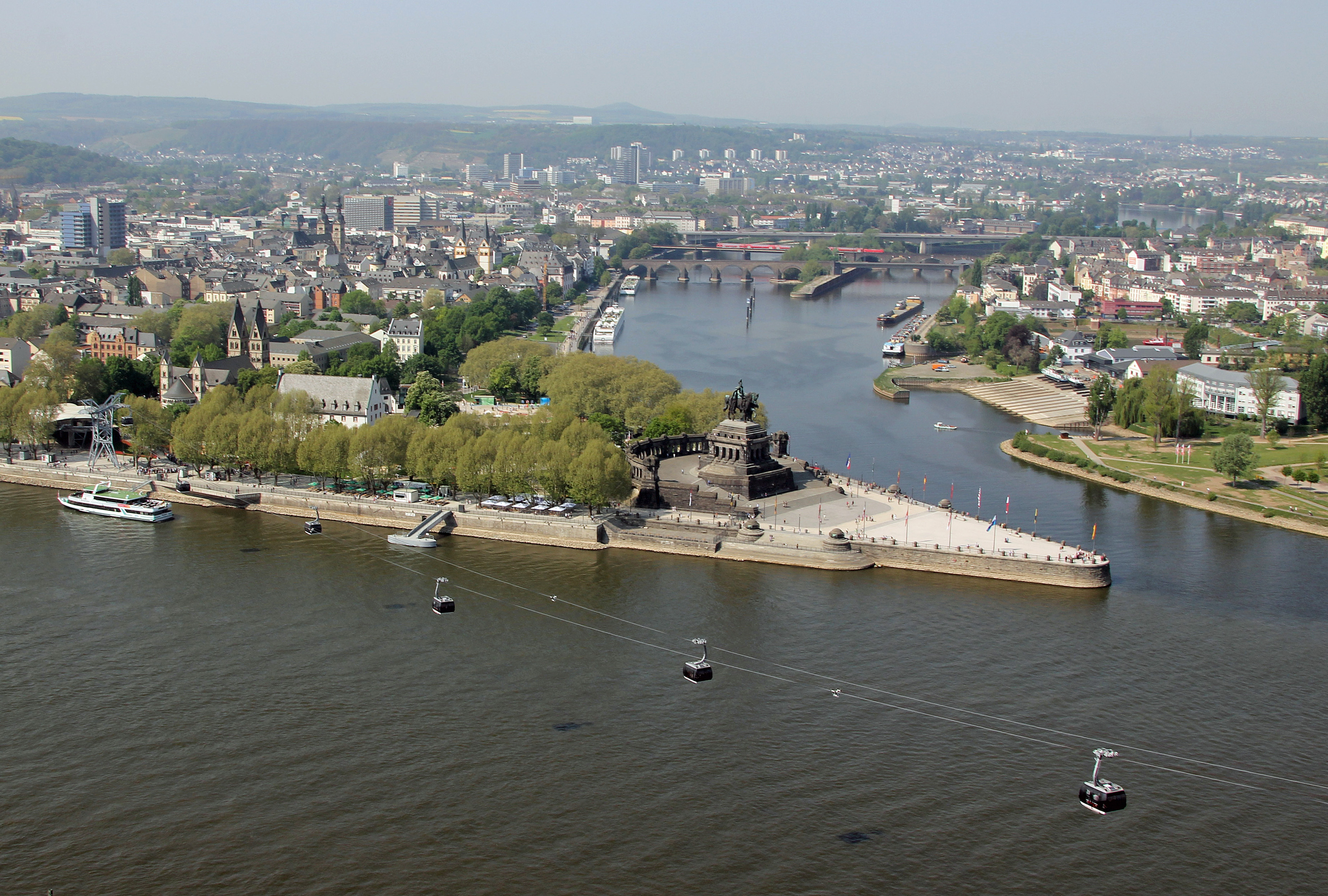 Deutsches Eck in Koblenz where the Moselle joins the Rhine